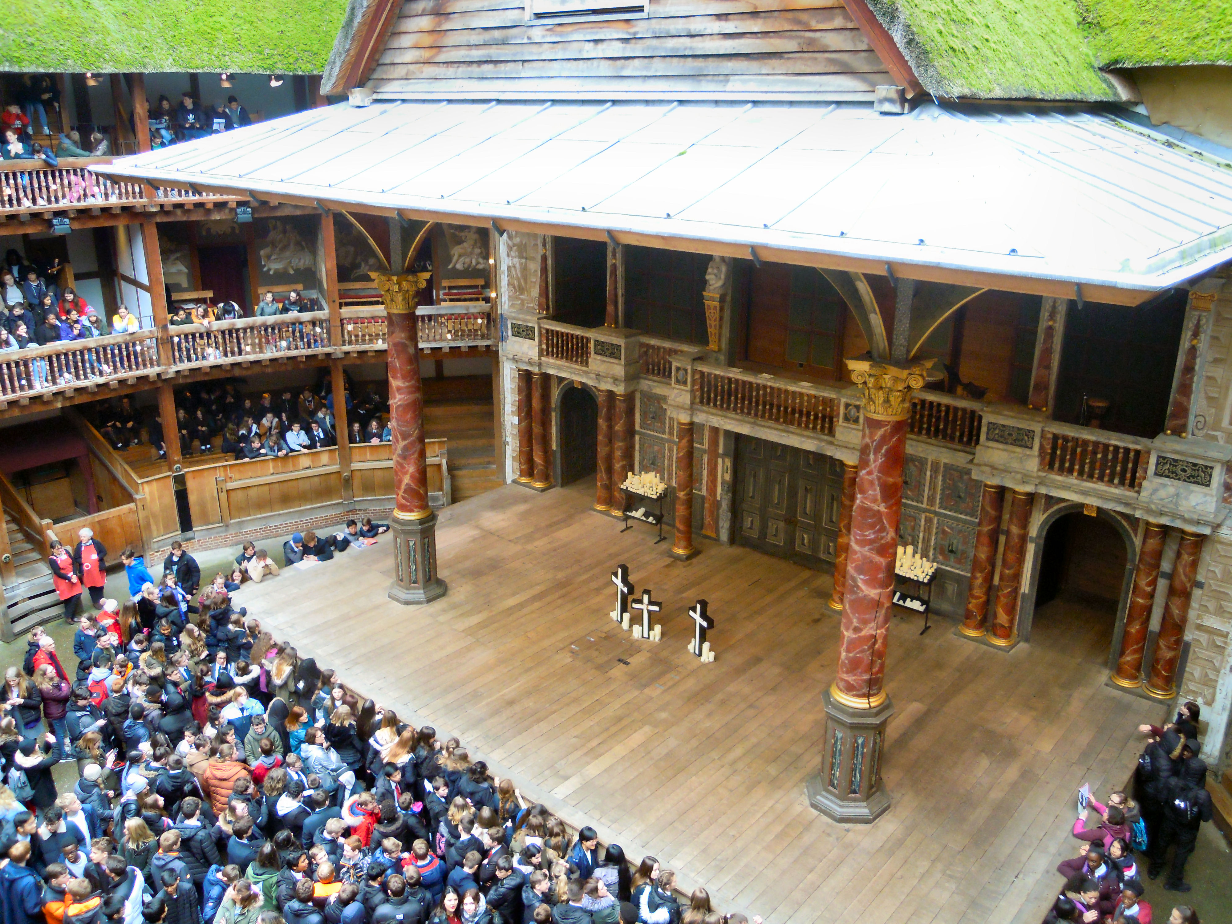 View of Shakespeare's Globe set up for a performance of Romeo and Juliet in March 2019